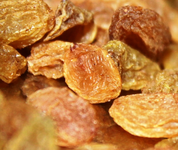 raisins